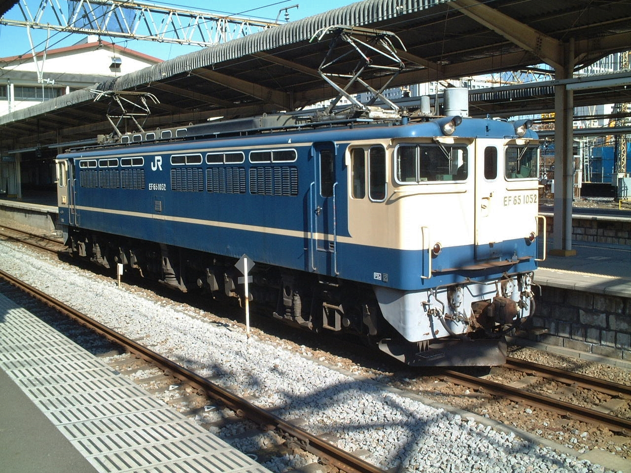 JR East Class EF65-1000 electric locomotive EF65-1052 at Shinagawa Station in Tokyo